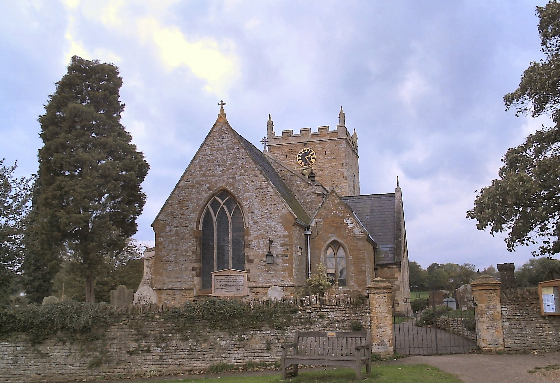 St Peter & St Paul's church - Sywell, Northants. Picture by R Neil Marshman (c)